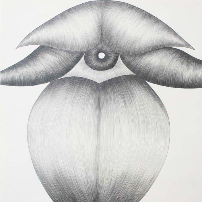 drawing